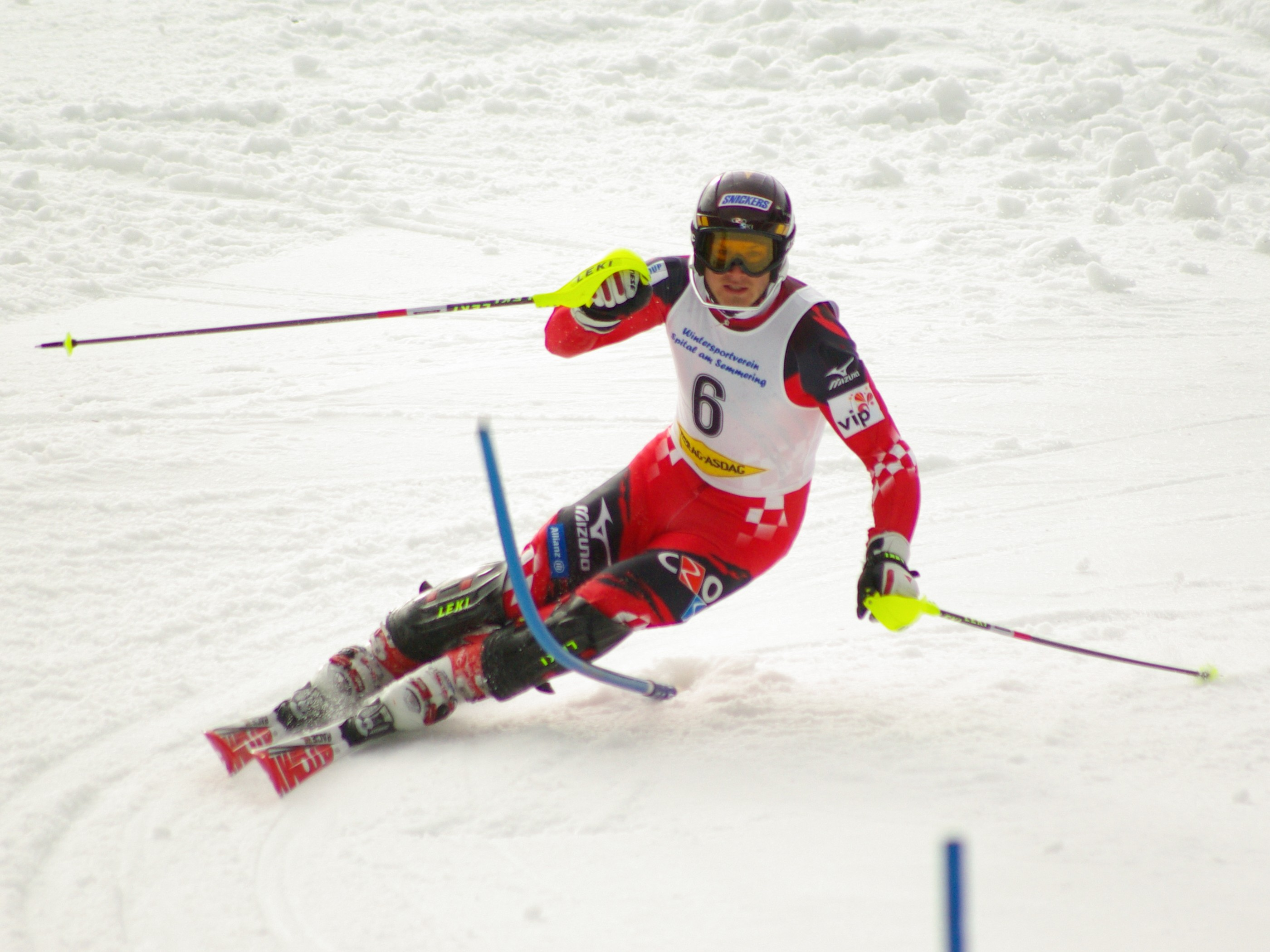 Croatian alpine skier Natko Zrnčić-Dim during the slalom run of the FIS super combined in Spital am Semmering, Austria on 11 March 2008.